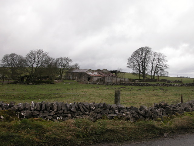 Benty Grange This farm now looks completely derelict.